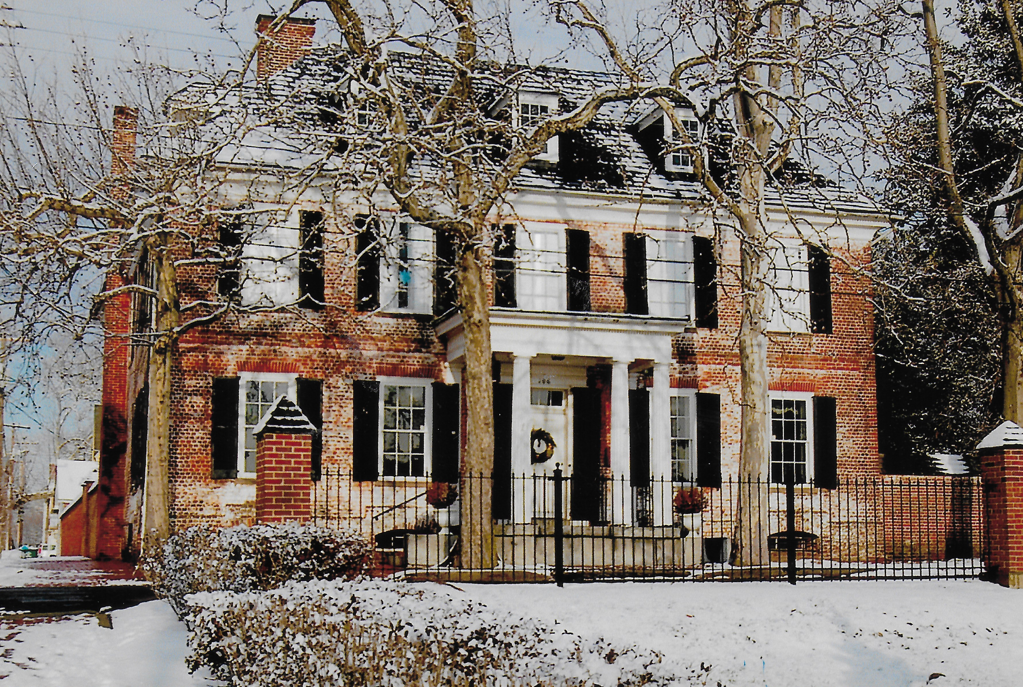 The Hynson Ringgold House located on Water Street in Chestertown, Maryland, is home of the sitting President of Washington College.